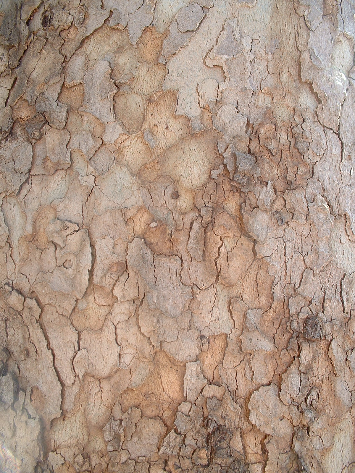 Bark on the trunk of the Platanus orientalis (Oriental plane) tree on the bank of the Nahal Mishmarot dam of the Nahalei Menashe Water Project in Israel.